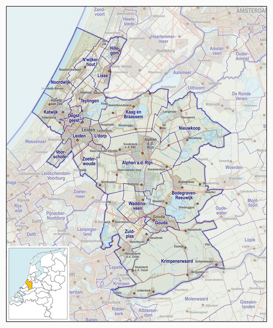 Map of the Dutch Safety Region, with an impression of the terrain and the municipal borders as of 1-1-2017.